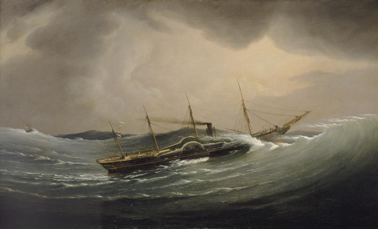 A portrait of the wooden paddle steamer ‘The Great Western’. Built by Brunel, she was the first of his three steamships and pioneered the steam deep water passenger trade. She was launched at Patterson & Mercer's yard in Bristol on 19 July 1837 and sailed to London later that month to be fitted out. The 'Great Western' sailed from Bristol on her maiden voyage on 8 April 1838, arriving at New York on 23 April. She completed 45 Atlantic voyages to New York for her original owners, the Great Western Steamship Company, before being sold to the Royal Mail Steam Packet Company for its service between Britain and the West Indies. The sale was forced in order to raise funds to salvage the company's other ship, the 'Great Britain' (1843), from Dundrum Bay. Following service to the West Indies, the 'Great Western' was employed as a troop transport during the Crimean War. She was broken up at Castle's Yard on the Thames in August 1856.